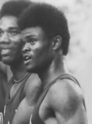 1976 Press Photo Winning US Olympic 1600 Relay Team